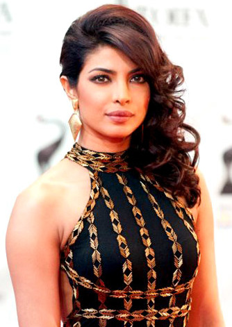 Times Of India Film Awards 2013 (TOIFA)